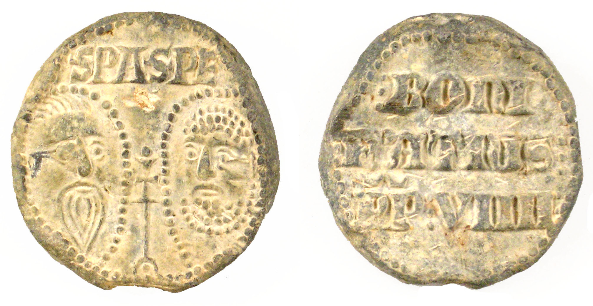 A cast lead Papal bulla. Papal bullae are lead seals which were attached to documents known as bulls, issued by the Papacy. The obverse depicts the head of St. Paul (which would have faced the head of St. Peter), with a sceptre between them. The two heads are each surrounded by a circle of pellets. The legend above the busts reads SPASPE. The reverse depicts the name of the Pope. The legend reads :BONI FATIVS PP:VIIII (written on three lines). This name refers to Bonifatius IX (1389-1404). The lead has gone a mid whitish-grey colour. Ribbon holes can still clearly be seen on the top and bottom and a perforation is visible through-out.